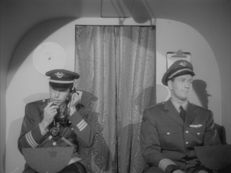 A visible boom mike in a scene from the public domain film Plan 9 from Outer Space